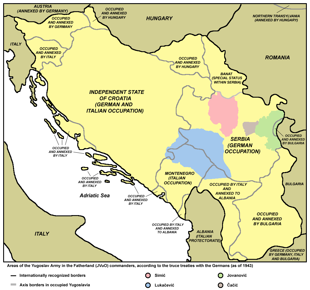 Areas of the Yugoslav Army in the Fatherland (JVuO) commanders, according to the truce treaties with the Germans (as of 1943).